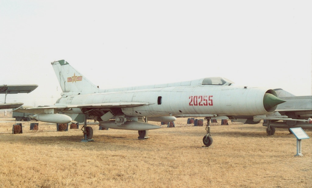 Shenyang J-8 (Finback-A)